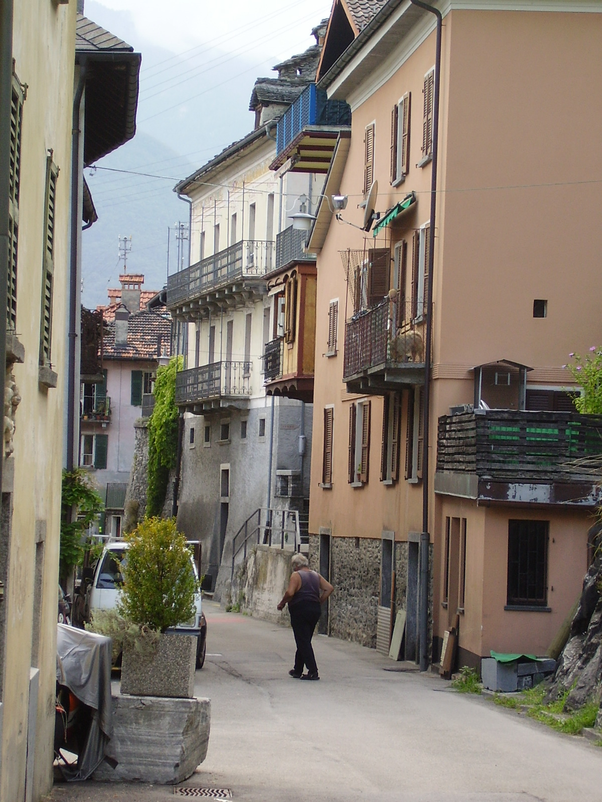 City street in Locarno, Ticino, Switzerland, 2007